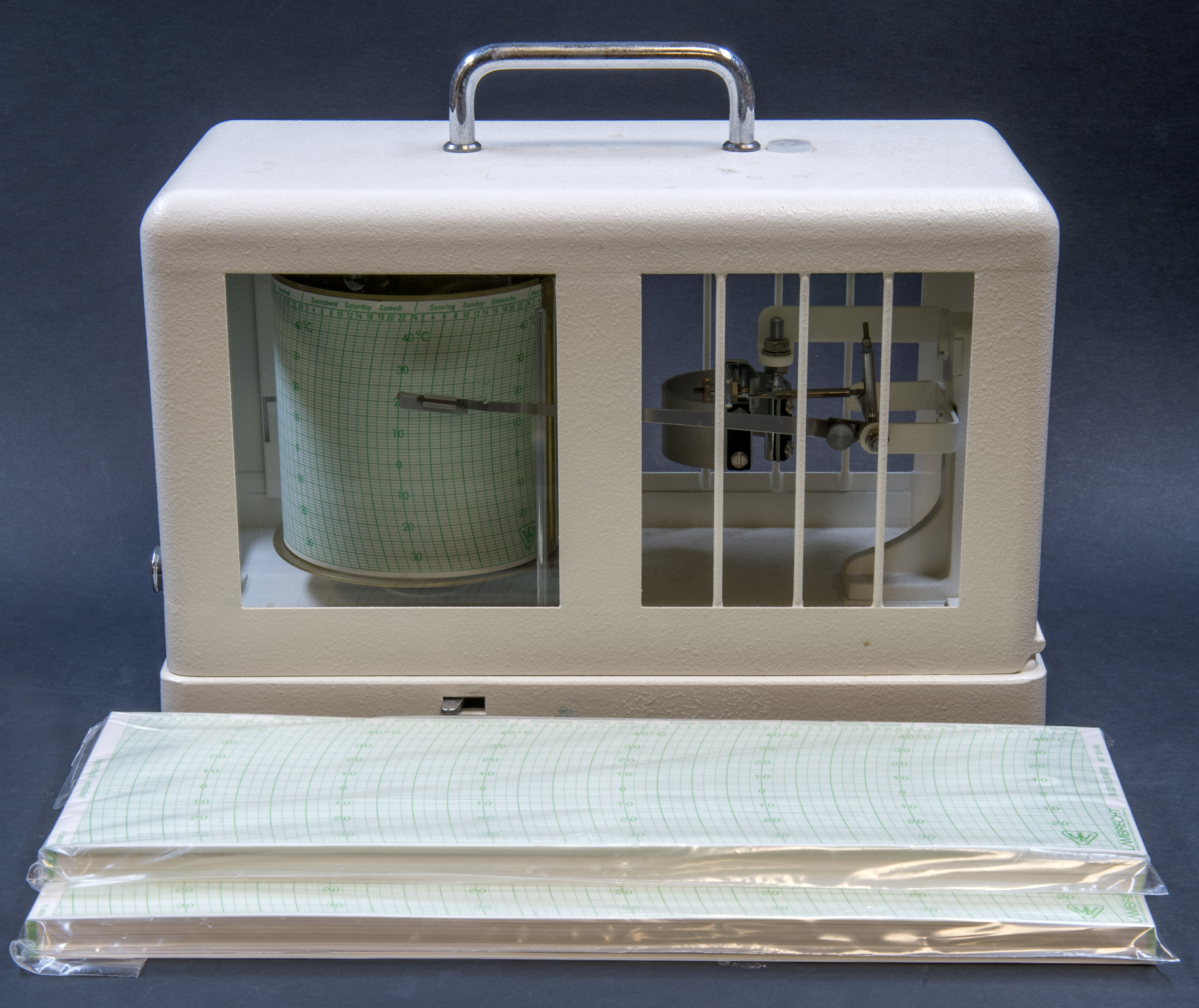 Thermograph Trommelschreiber manufactured by Lambrecht GmbH since the 1980th